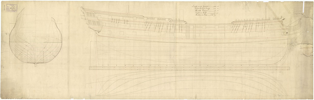 The body plan, sheer lines, and longitudinal half-breadth for Dublin (1757), Norfolk (1757), Shrewsbury (1758), Warspite (1758), Resolution (1758), Lenox (1758), and Mars (1759) all 74-gun Third Rate, two-deckers.